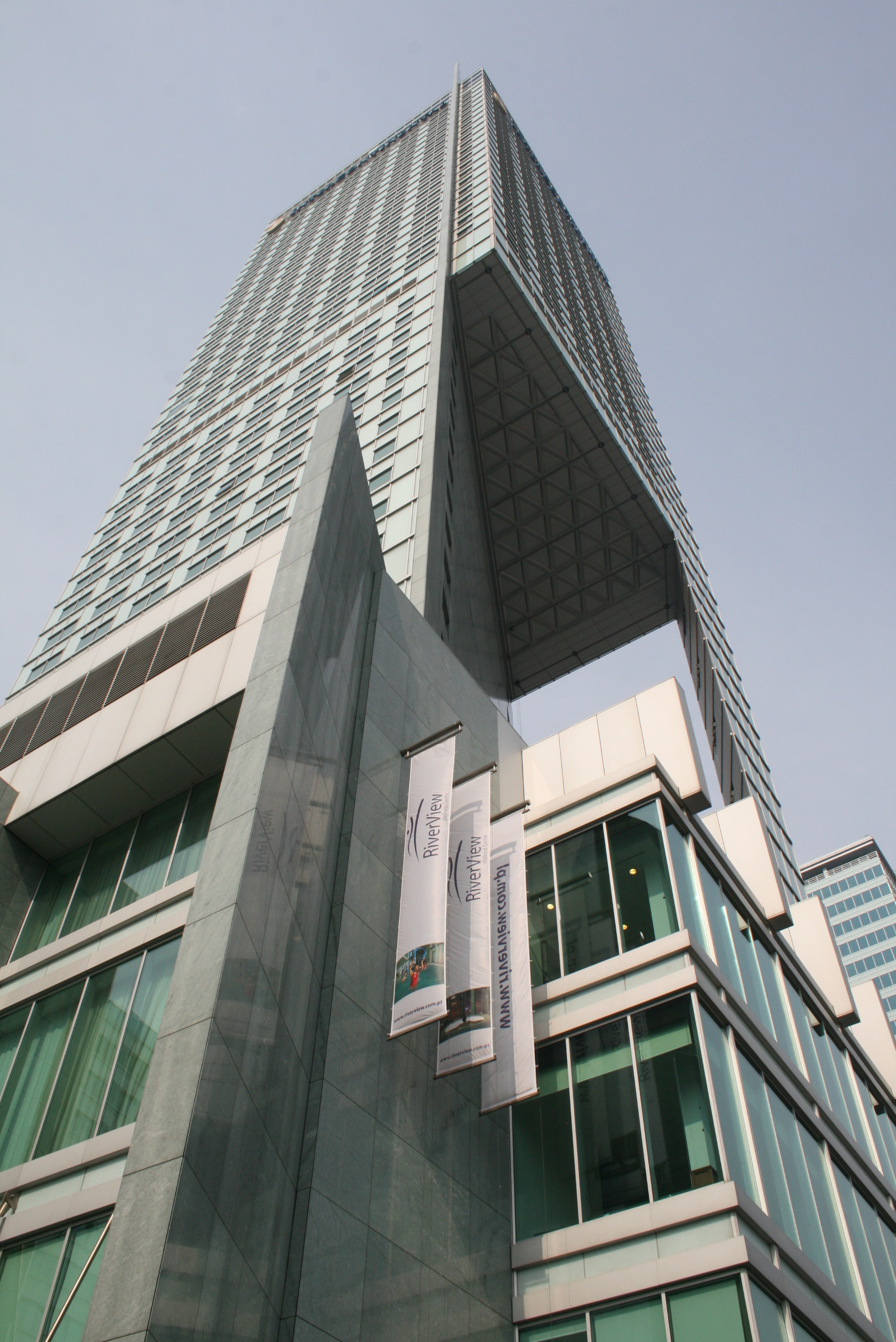 Intercontinental Warsaw